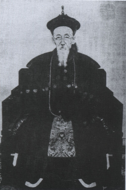 Zhang Zhiwan, politician of the Qing Dynasty.